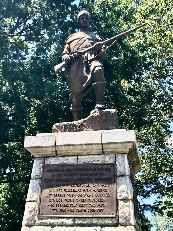 A 7 foot high bronze standing figure of a colonial infantryman from the First Virginia Regiment, founded in 1754. The figure is mounted on a pedestal 8 feet high which is lined with bronze plaques describing the history and service of the Regiment through seven wars. The monument was dedicated May 1, 1930.